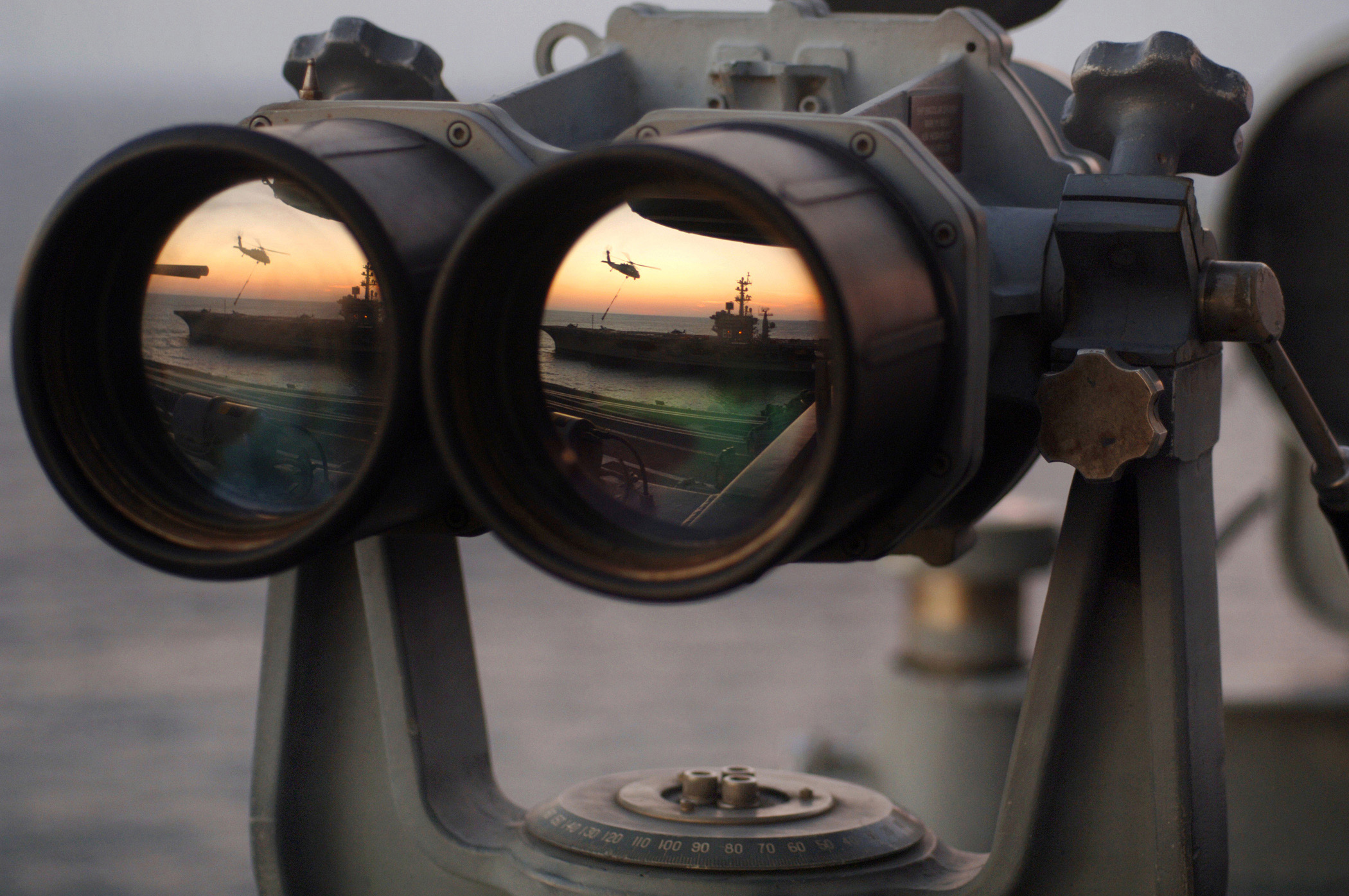 The sun sets over a set of "Big Eyes" binoculars on the signal bridge of the USS Harry S. Truman while an MH-60S Seahawk assigned to the "Bay Raiders" of Helicopter Combat Support Squadron 28 airlifts several replenishment slings to the USS Dwight D. Eisenhower, Nov. 4, 2005. The Truman is under way off the coast of the eastern United States.